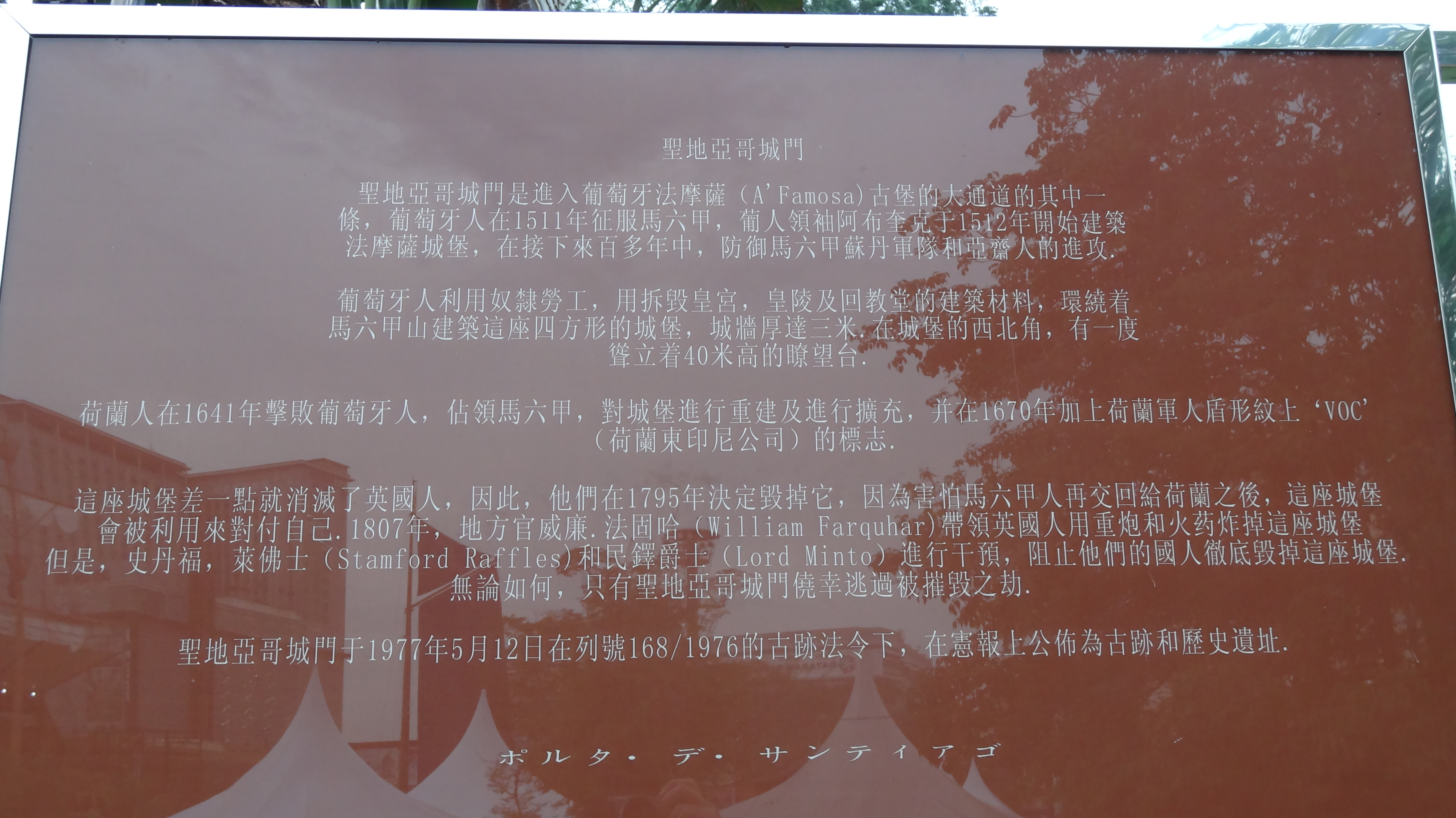 Porta de Santiago